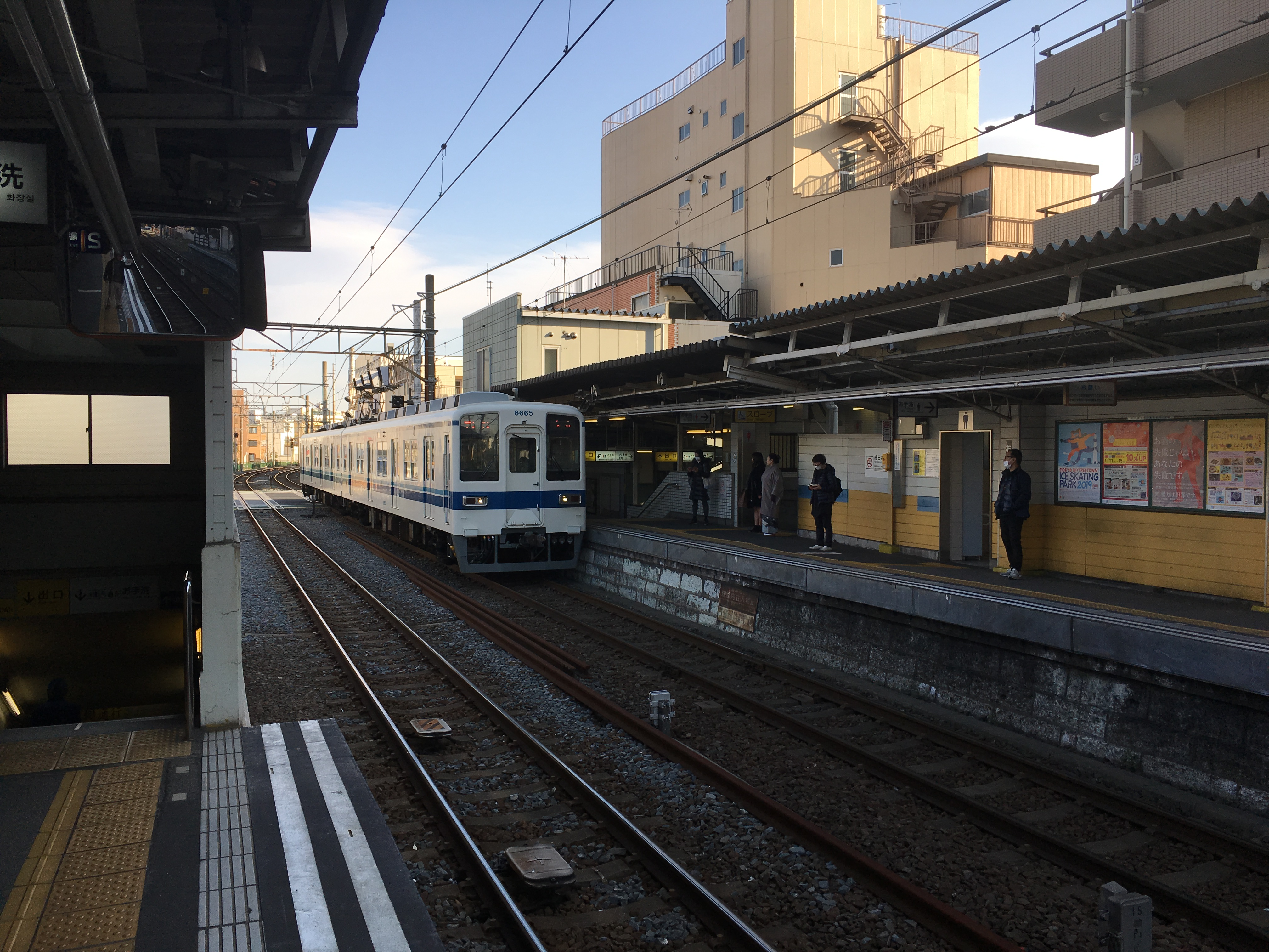 小村井駅 (Omurai Station)